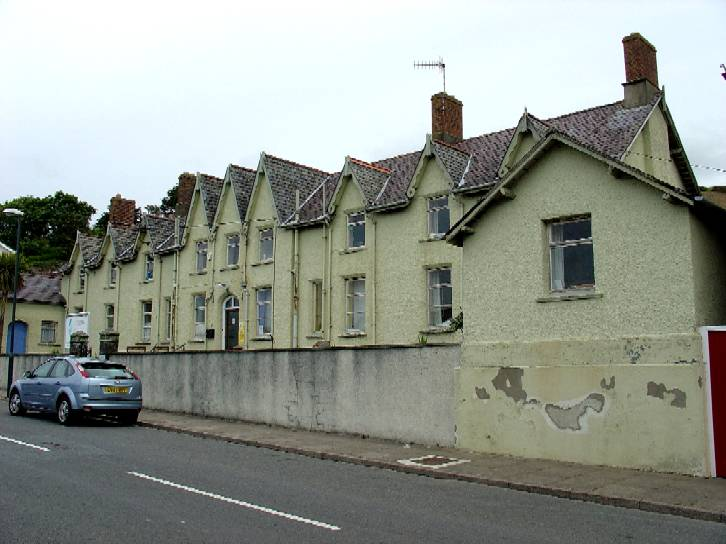 The old workhouse, Aberaeron. Taken by Aeronian on 26 May, 2007. More recently Aberaeron Cottage Hospital.